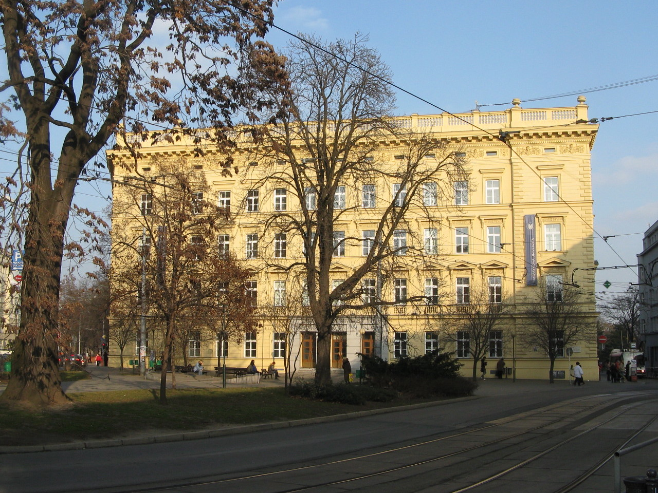 Rectorate of the Masaryk University, Brno